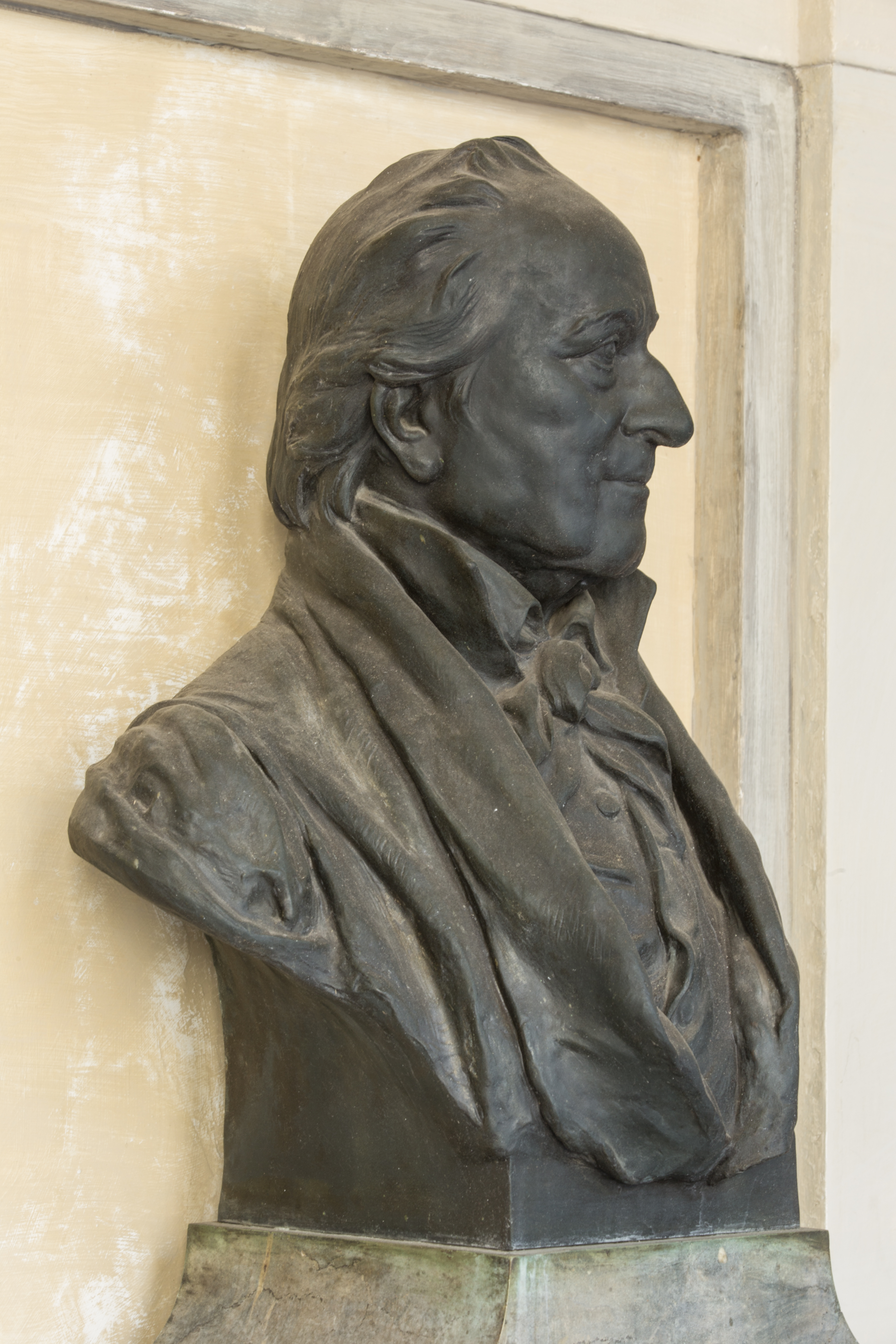 Nikolaus Joseph Freiherr von Jacquin (1727-1817), bust (bronze) in the Arkadenhof of the University of Vienna, (Maisel# 35). Artist: Leopold Schrödl (1841-1908), unveiled 1905 The making of this work was supported by Wikimedia Austria. For other files made with the support of Wikimedia Austria, please see the category Supported by Wikimedia Österreich.